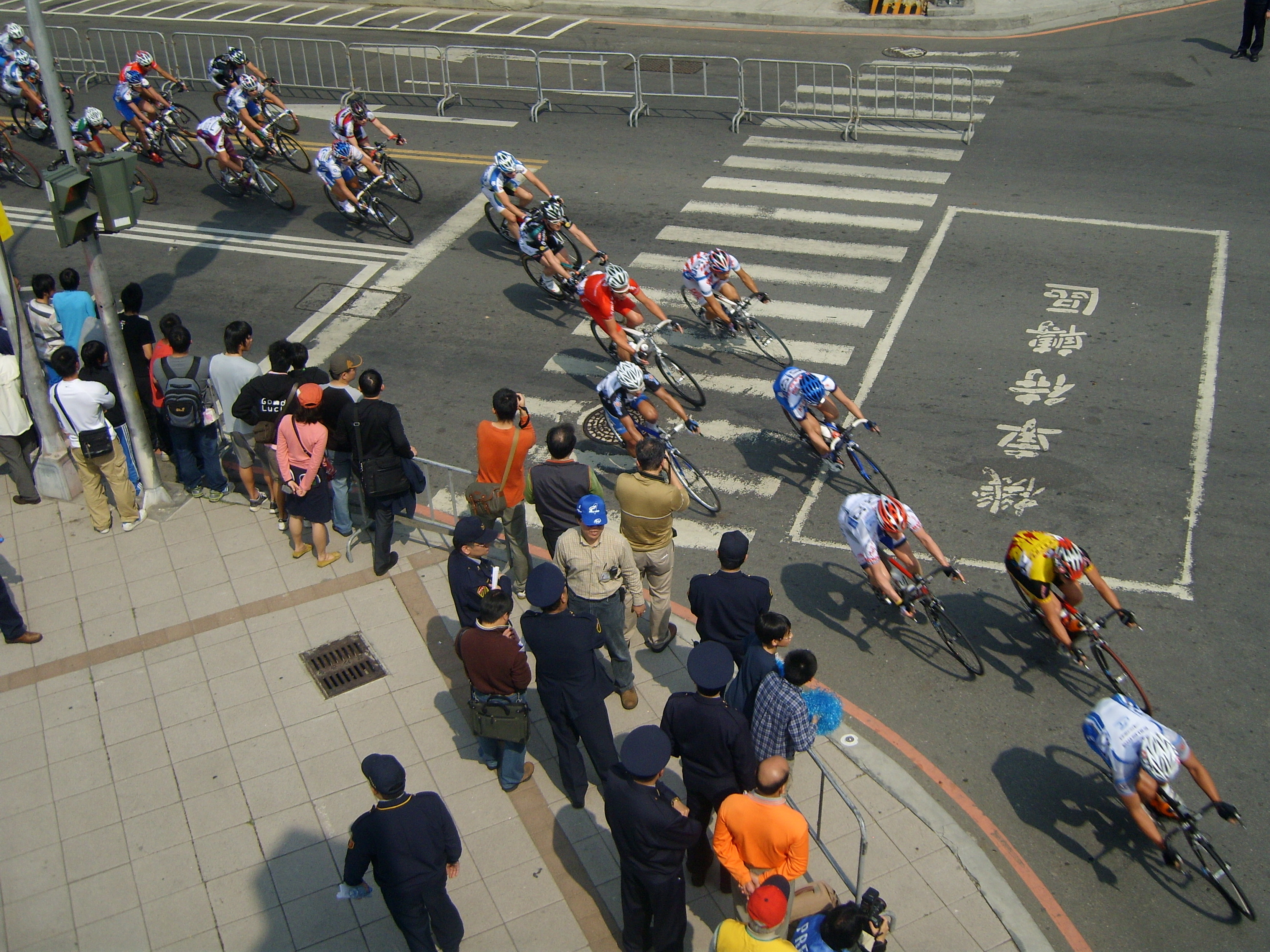 2008 Tour de Taiwan Taichung Stage: Intersection of Wen-shin Road and Shiang-shang Road.